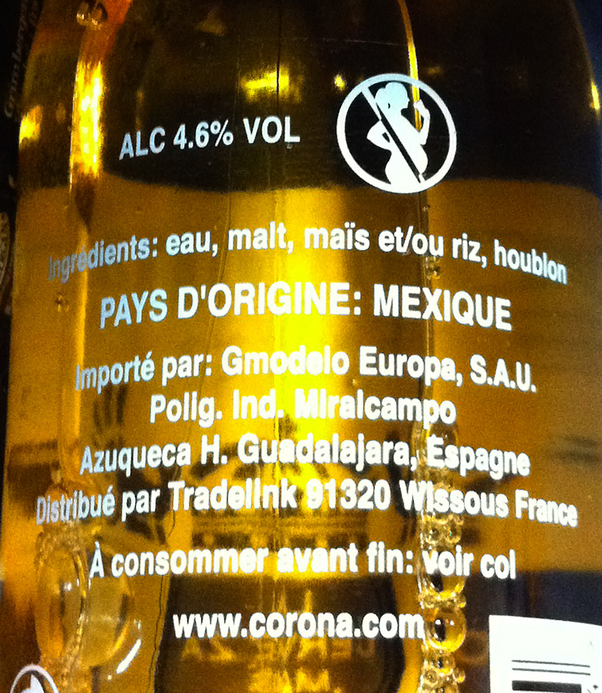 Information at the back of a 355ml Corona Extra bottle sold in France